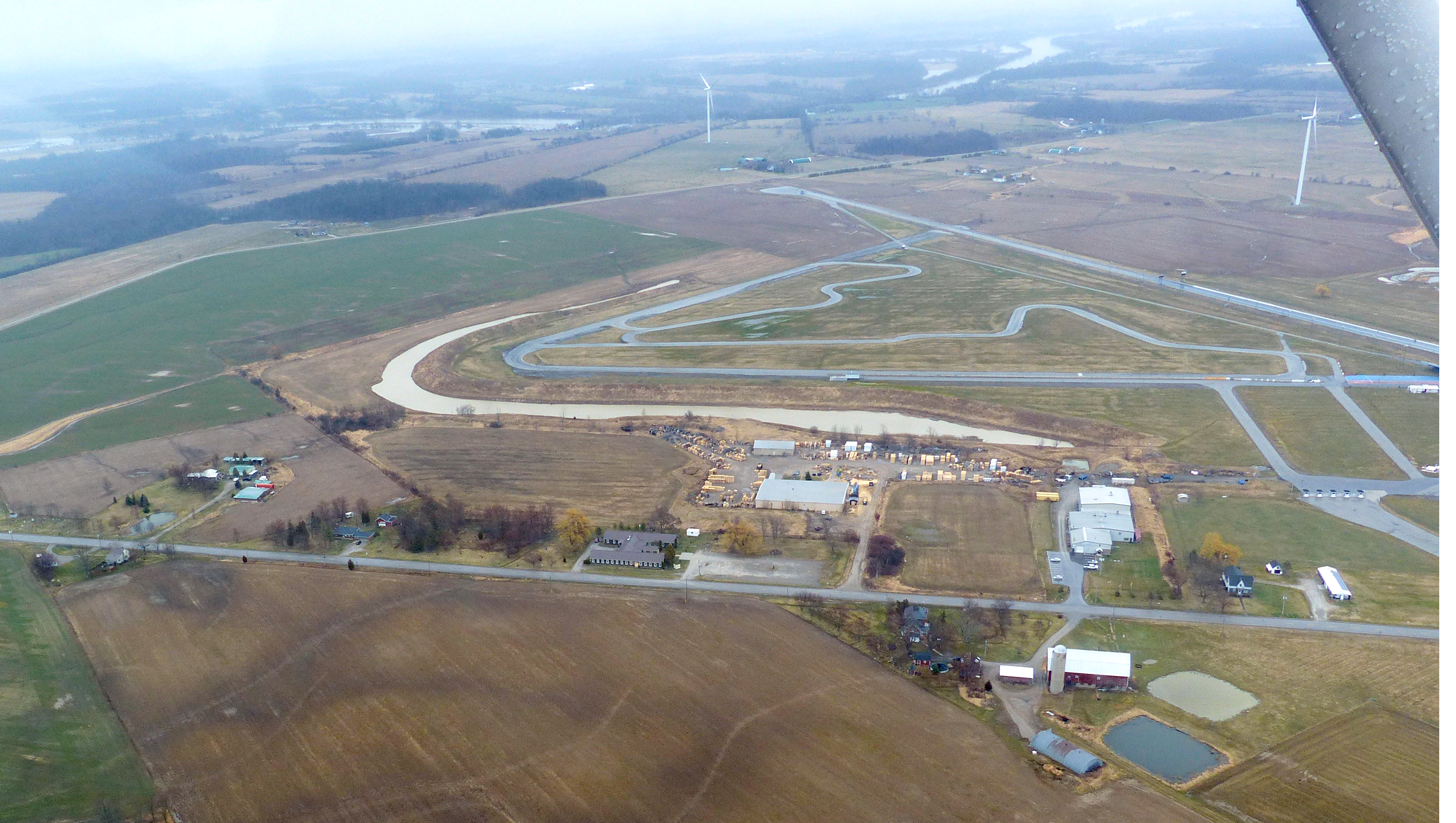 This is the site of Royal Canadian Air Force relief landing field Cayuga, built in 1941-1942 under the British Commonwealth Air Training Plan. In 2018 the facility is the Toronto Motorsport Park, an automotive dragstrip and race course. The original three runways form the characteristic triangular shape of a World War II airfield, and now they form part of the race course. The dragstrip is runway 05-23. The camera is pointing 080. The Kohler Road runs from north (left) to south (right) at the bottom of the frame, and a brown H-shaped building can be seen adjacent to the road. This is an "H-Hut", used as a barracks. The building is original. Pictures taken from a Cessna 172 aircraft flown by Aaron Webb and Steve Bond from the Brantford Flying Club, Brantford, Ontario.